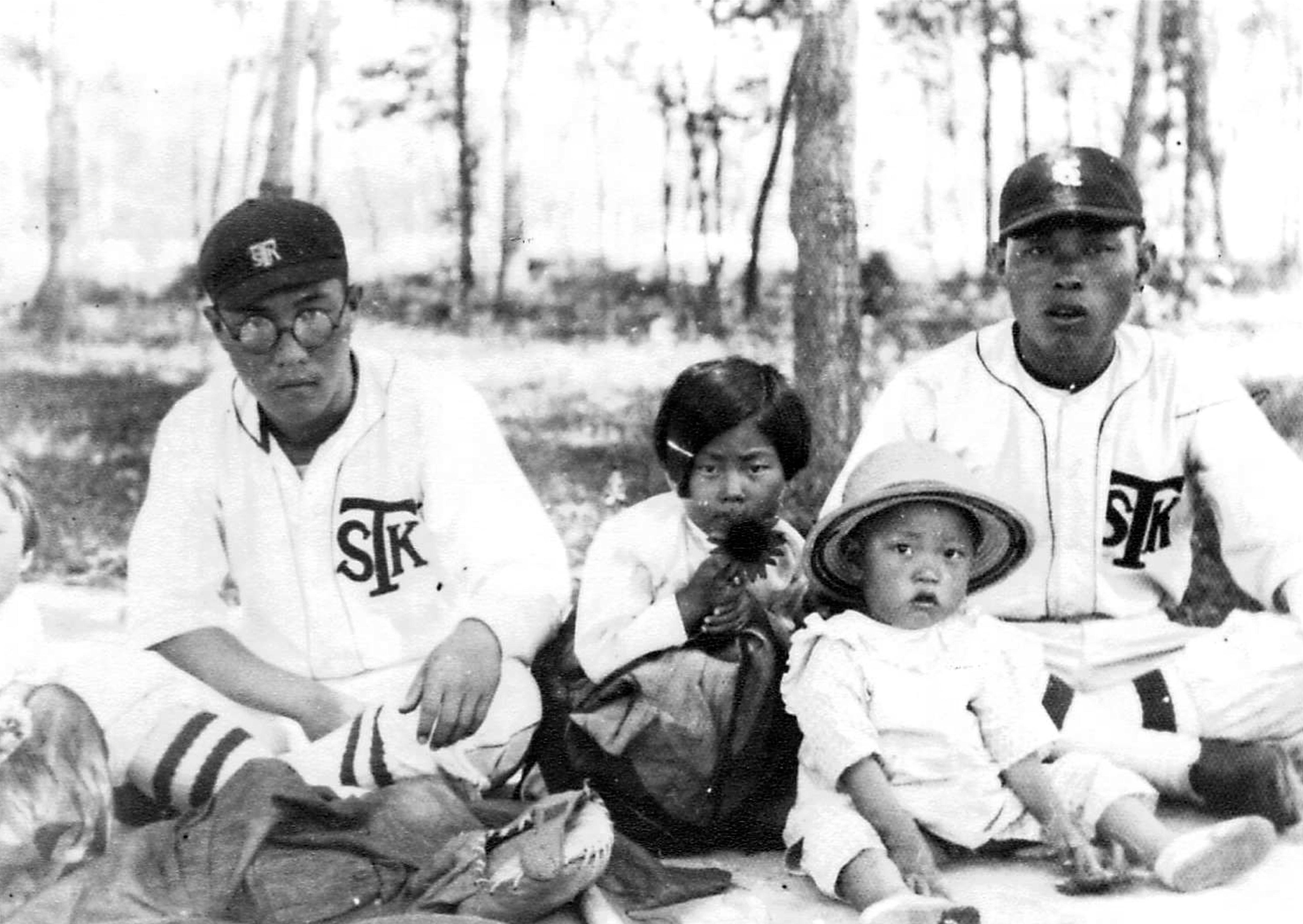 No Kum-sok, 1935